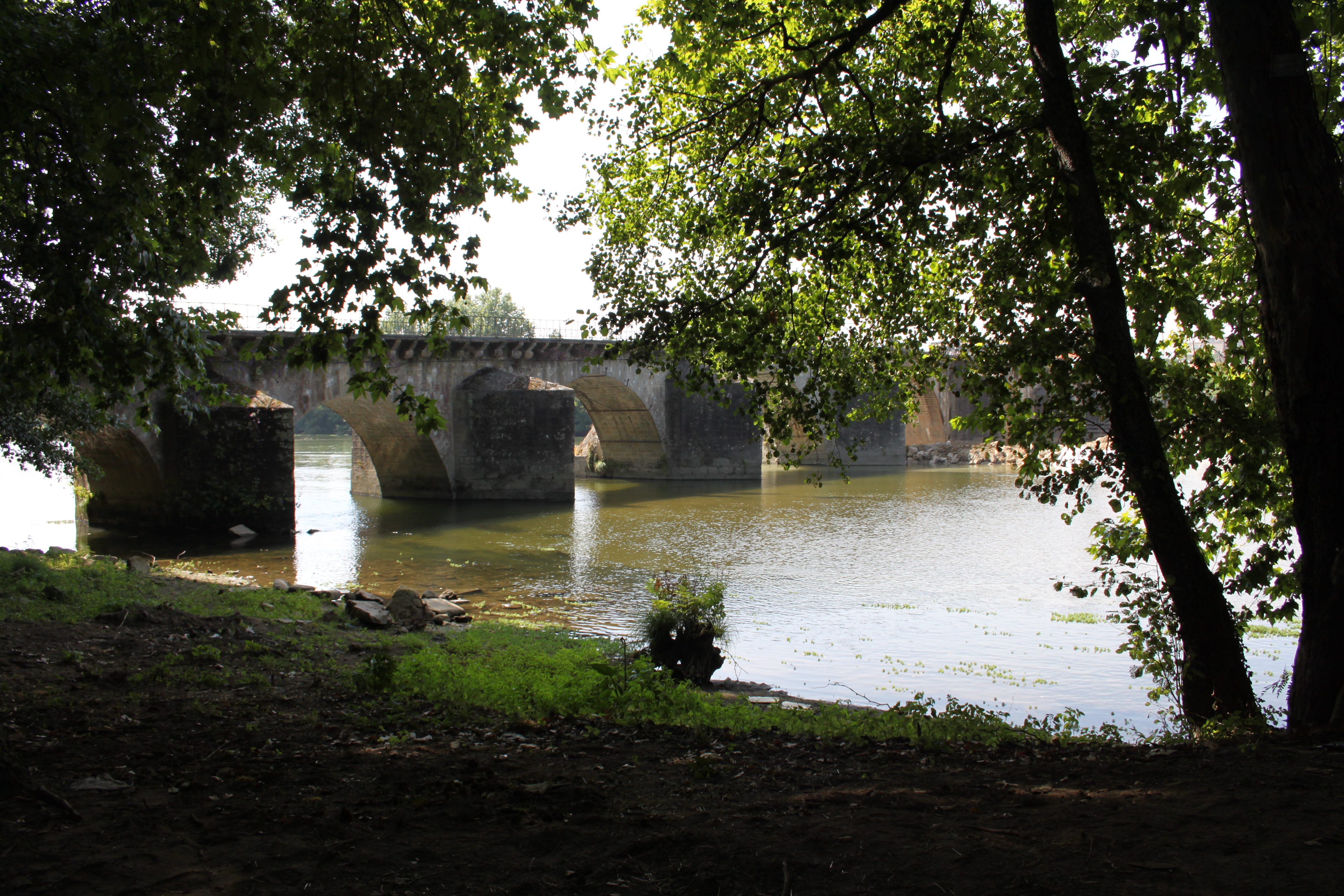 This file was uploaded for Wiki Loves Monuments in Portugal with the unique identifier 70616.